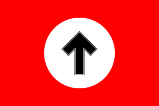 Tiwaz rune on a flag variant of the German political party Freiheitliche Deutsche Arbeiterpartei (“Free German Workers' Party").[2] This Party existed from 1979 to 1995.